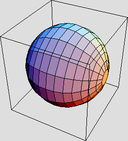 bounding box